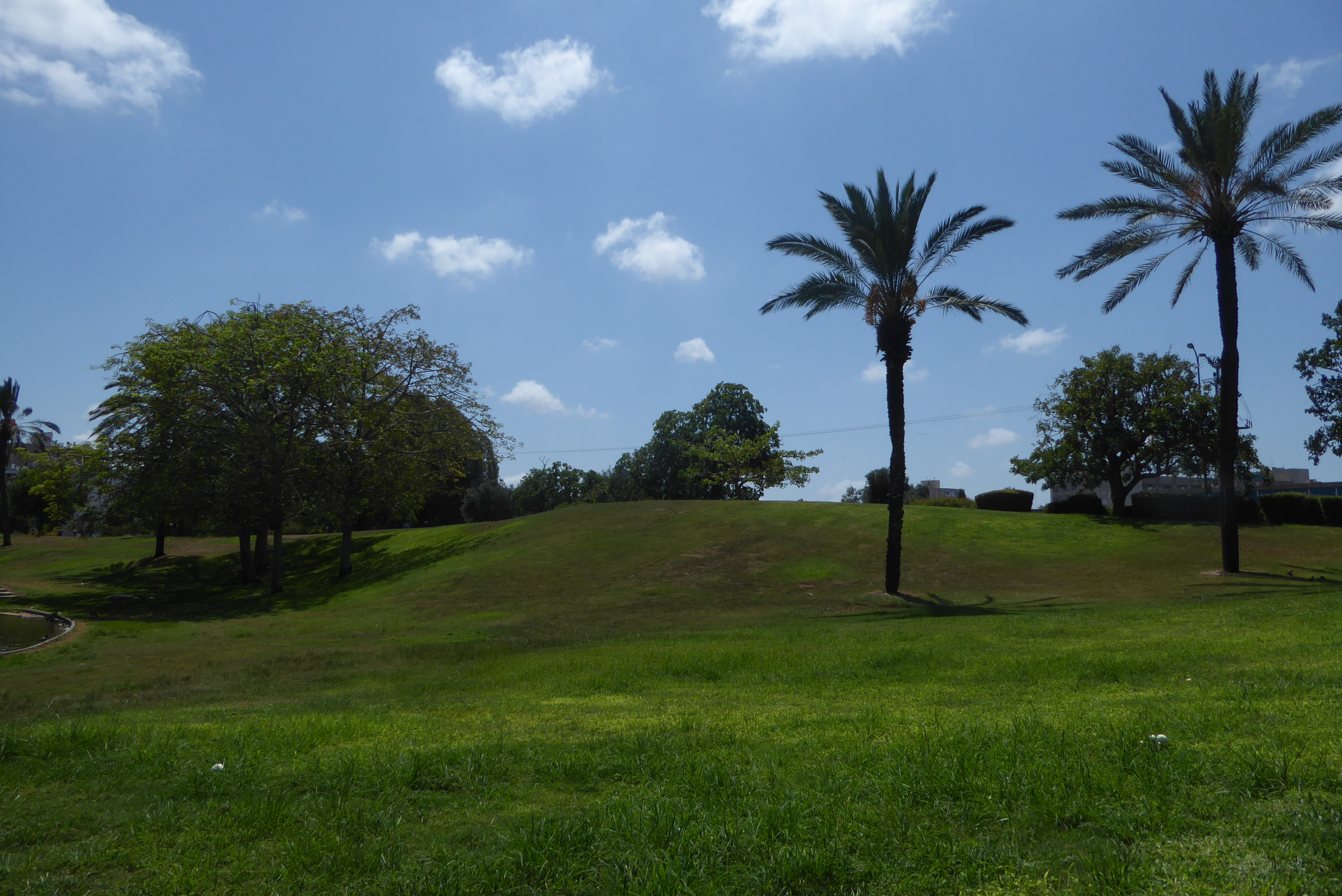 Edith Wolfson Park